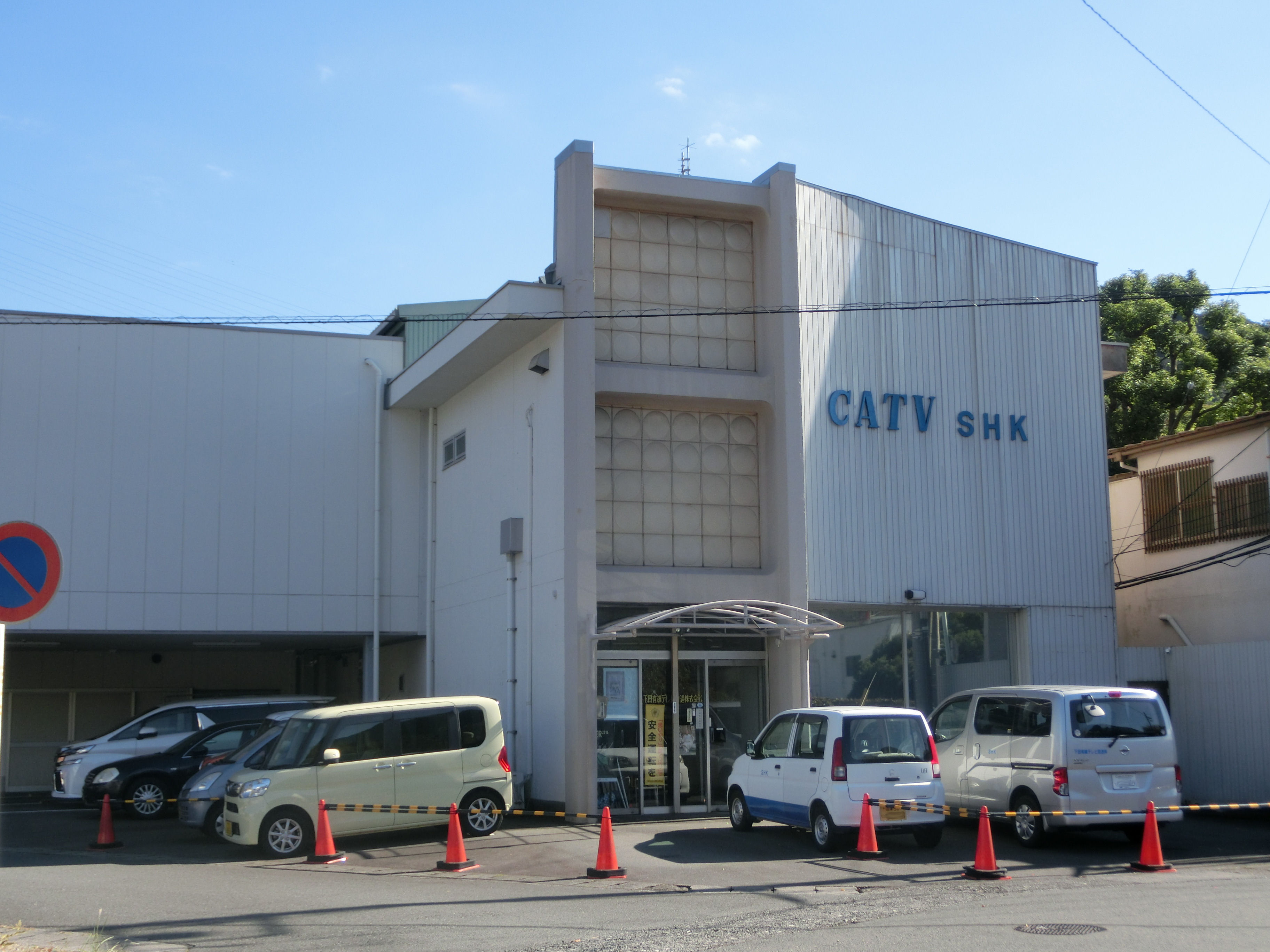 Shimoda Cable TV Head Office